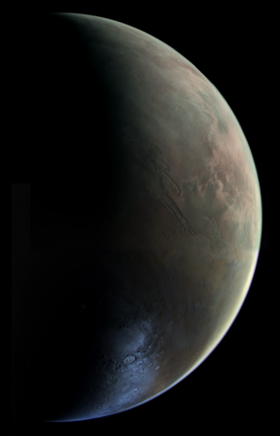 This is the final image of Mars captured by Viking Orbiter 2 as it approached for its orbit insertion on August 6, 1976. It is a two-image mosaic. Valles Marineris is clearly visible at the center of the disk, crossing the terminator. In the south, frost extends up into the Argyre basin; on its edge, with a dark outline, is the crater Galle, famous for the eroded remnants of a central ring that makes it look like a happy face.